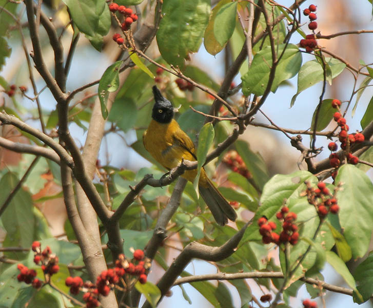 Black-crested Bulbul Pycnonotus flaviventris feeding on Kamala Mallotus philippensis fruit at Jayanti in Buxa Tiger Reserve in Jalpaiguri district of West Bengal, India.